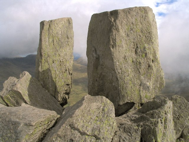 Adam and Eve on Tryfan. These 2 standing stones are the very highest point on the top centre of Tryfan. On a still day, the brave will climb them and jump the gap, which is wider than it looks at this angle. Fortunately it was horrendously windy, so I didn't have the option.